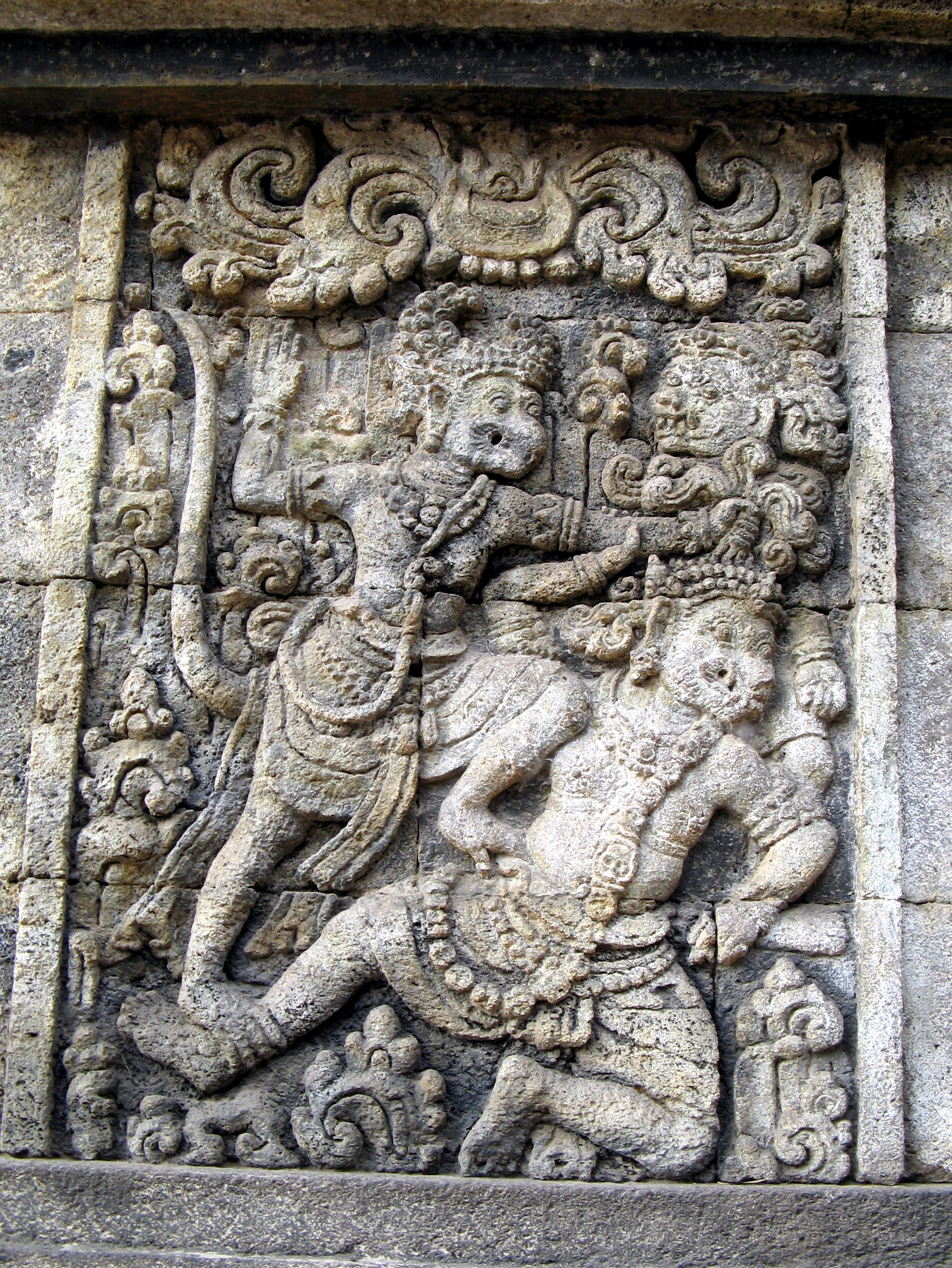 This lively Ramayana relief, on the first terrace of the main temple, shows a monkey general (left figure, probably Hanuman) in typical smiting posture as he prepares to dispatch a foe.